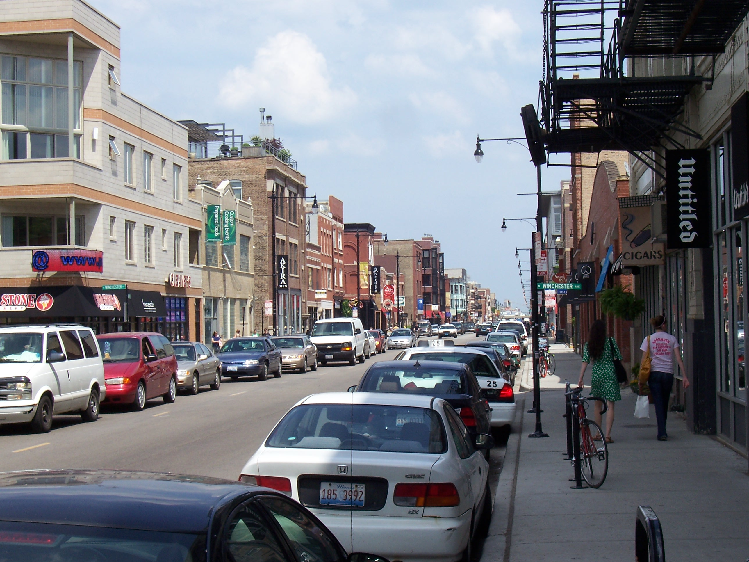 West Side, Chicago